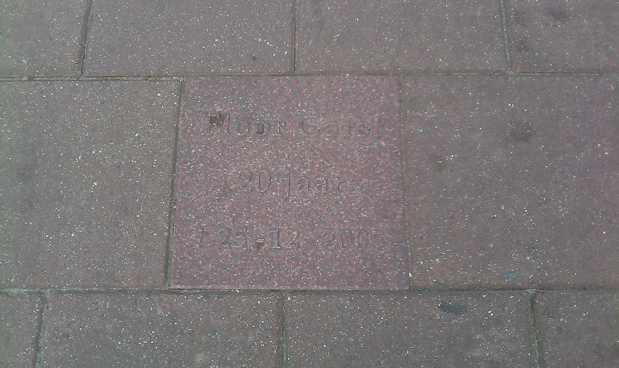 Memorial stone in the pavement of the Churchillplein (Churchill Square), Deventer, the Netherlands; in remembrance of Floor Garst, who was killed here in an act of random violenceUnknown gedenksteen op het churchillplein in deventer ter herinnering aan floor garst die hier werd gedood door zinloos geweld